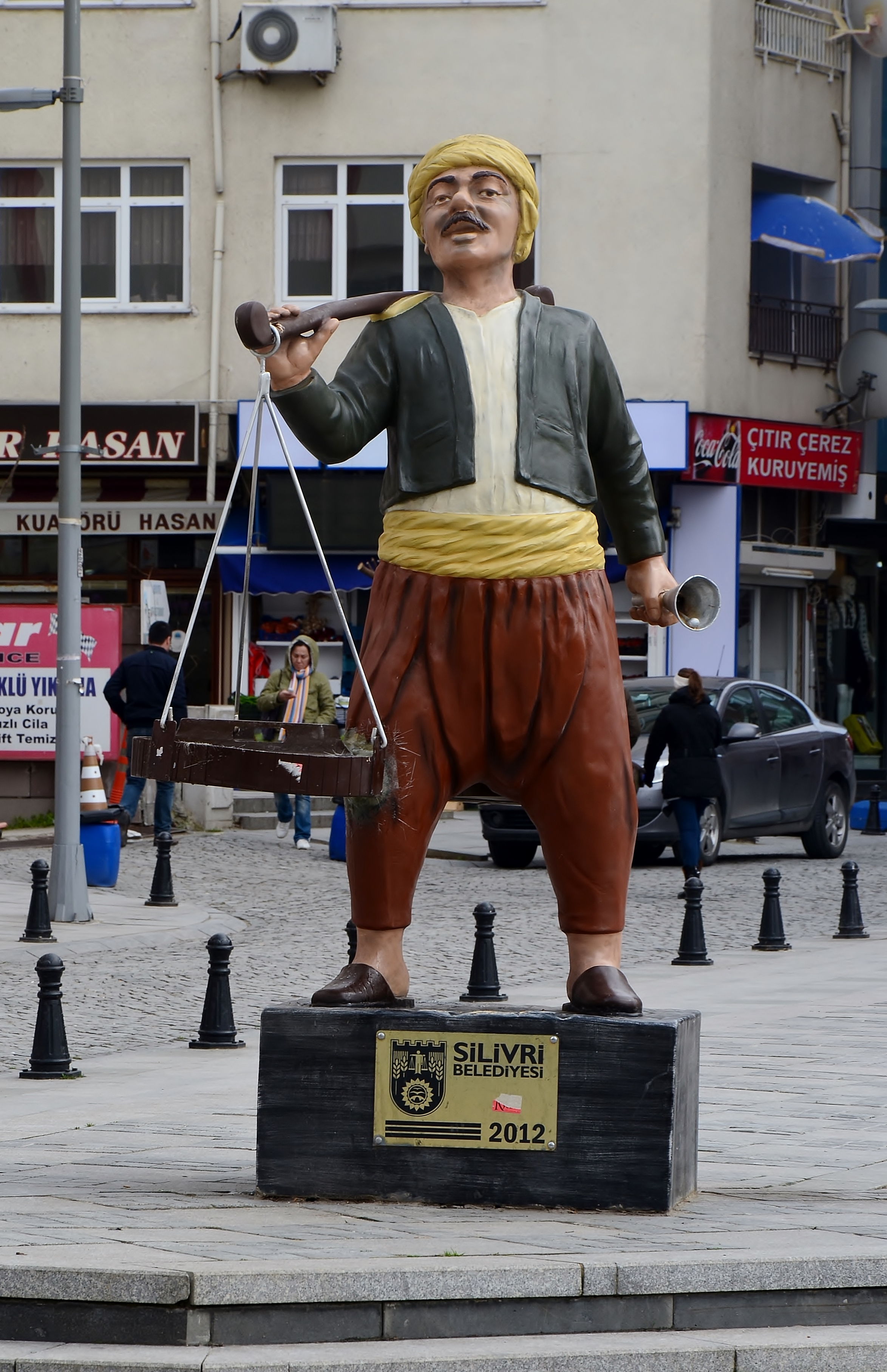 Statue of Yogurtman in Silivri, Istanbul